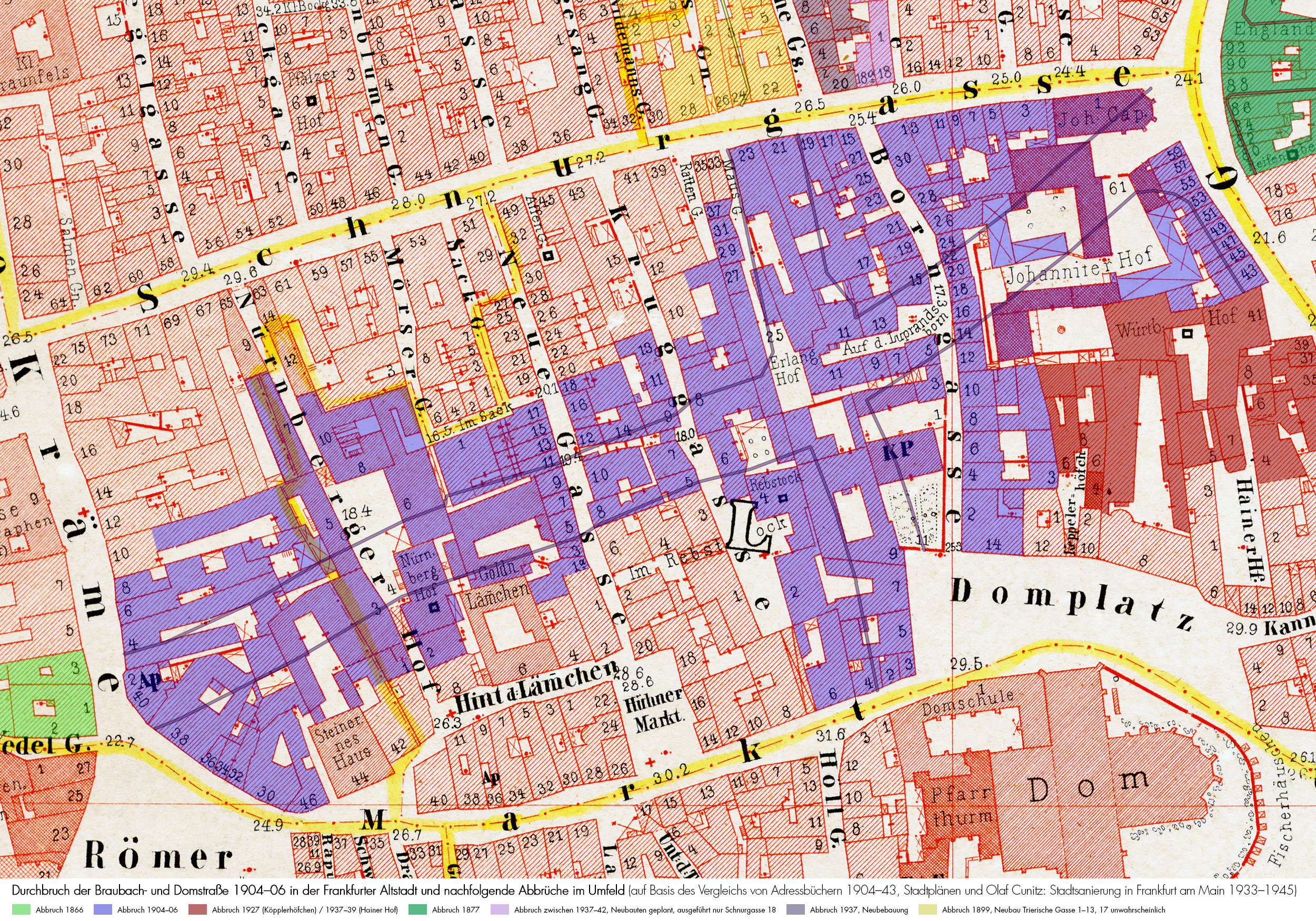 Frankfurt on the Main: Street opening of the Braubach- (Braubach-) and the Domstraße (Cathedral Street) 1904–1906 in the Altstadt (Old Town)